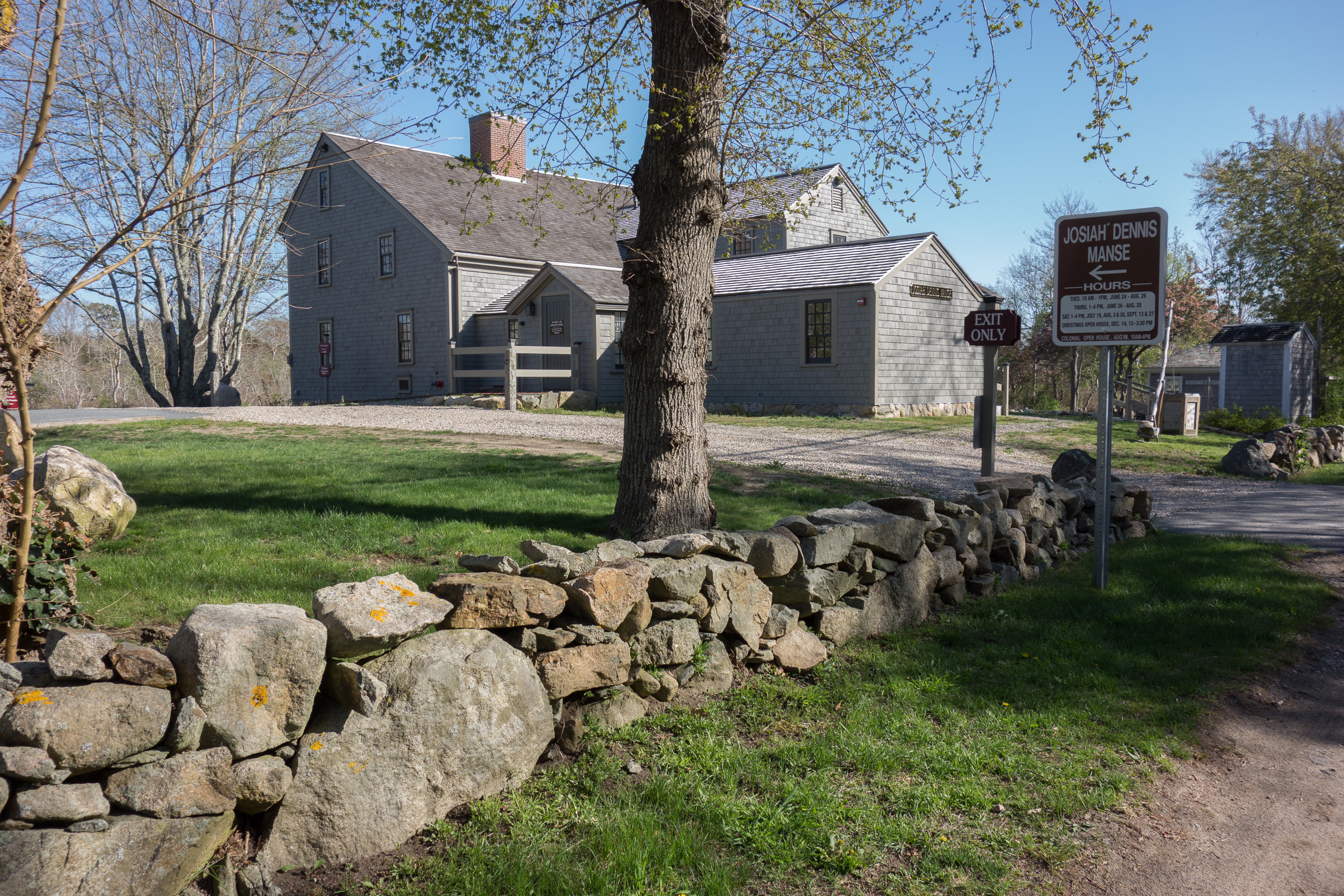 Josiah Dennis House, 16 Whig Street, Dennis, MA. Built ca 1736. National Register of Historic Places.